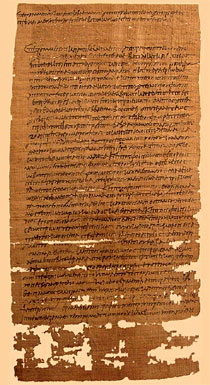 Registration document for four date orchards owned by Babatha, a 2nd century Jewish woman. One of the 35 separate papyrus scrolls belonging to her that were found in the Cave of Letters. From the NOVA Ancient Refuge in the Holy Land website. [1]